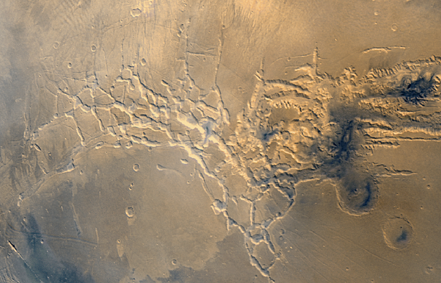 Noctis Labyrinthus. Fragment of Eastern Tharsis and Noctis Labyrinthus.png. Viking 1 Orbiter color mosaic. The images used to produce this mosaic were taken during orbit 1334 on 22 February 1980. (Viking 1 Orbiter MG01N104-334S0)